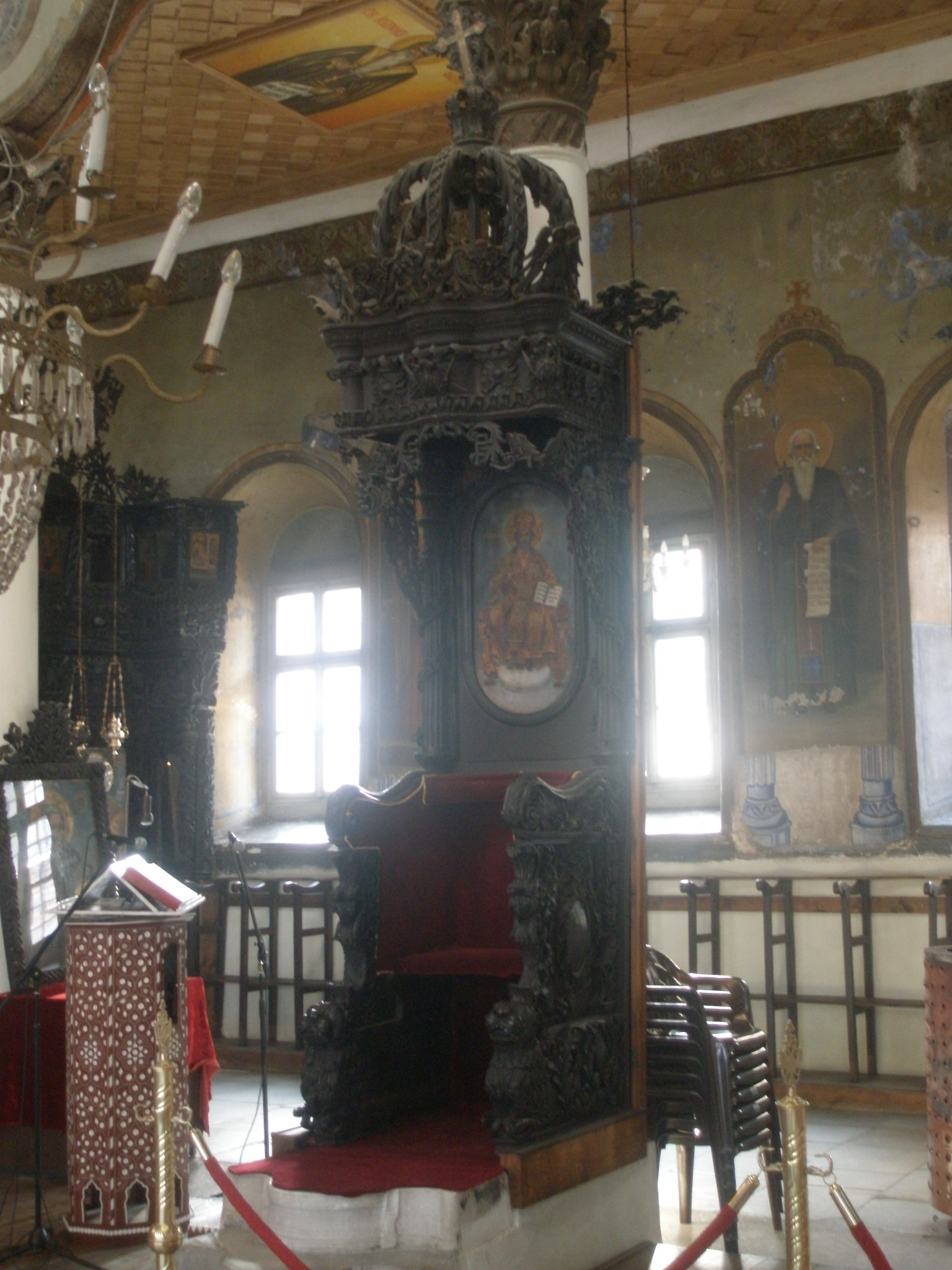 тронът